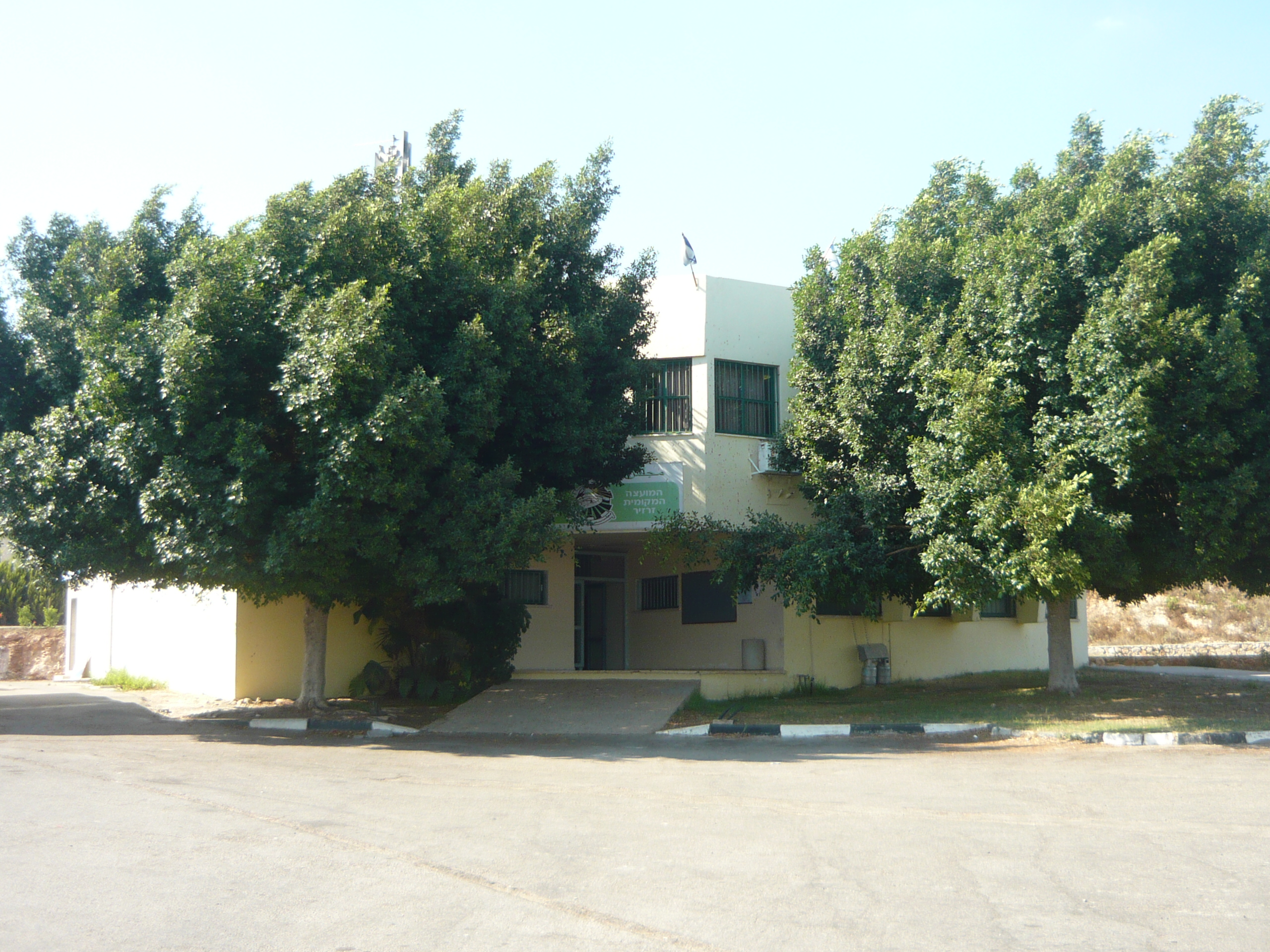 zarzir council building בניין המועצה המקומית זרזיר